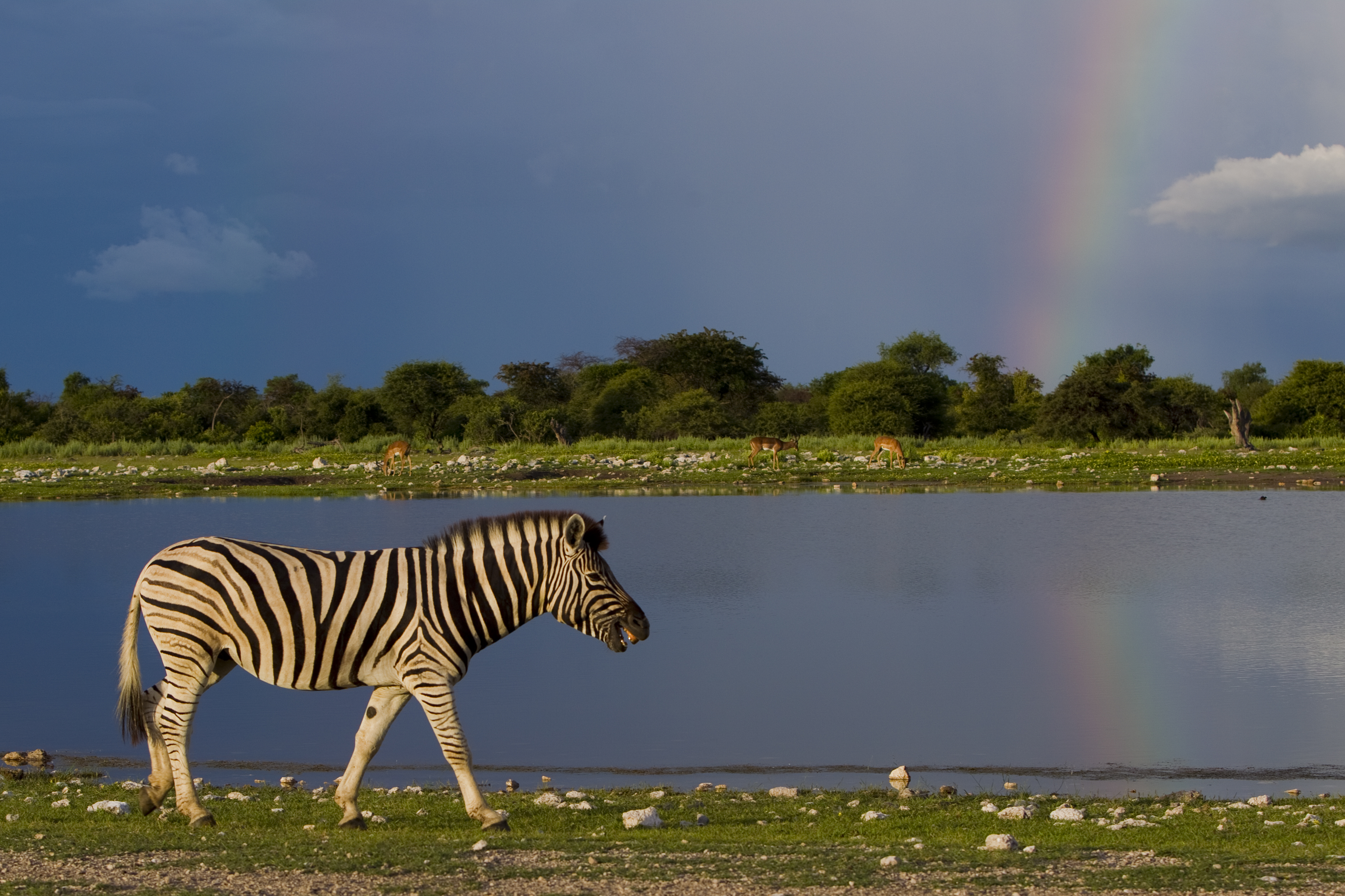 Plains zebra walking at Klein Namutoni with a storm and rainbow in the background, Etosha National Park.